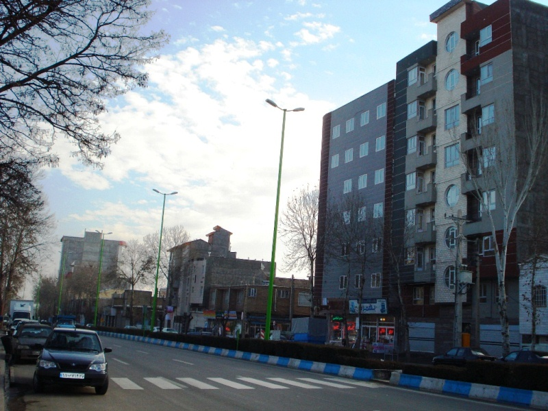 بلوار 22 بهمن